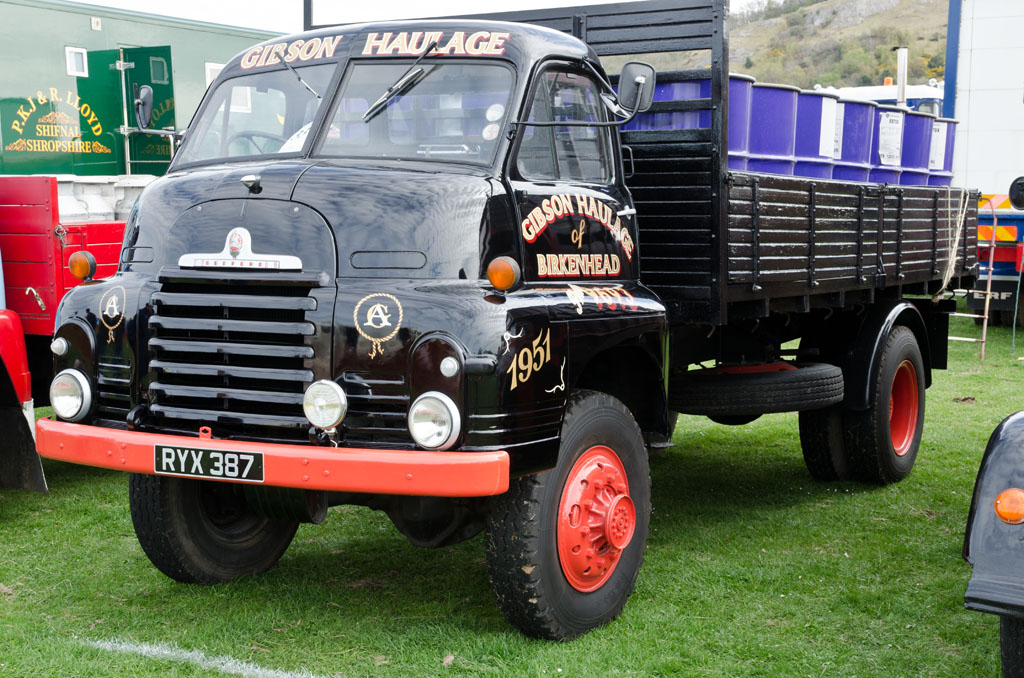 Llandudno Transport Festival - 04/05/2013